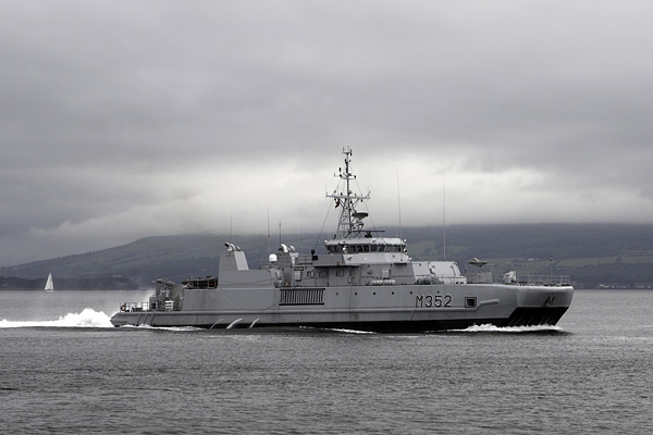 Image of Rauma (M352) of the Royal Norwegian Navy. Taken on the River Clyde on 16th June 2006.